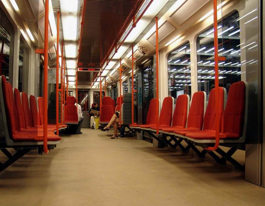 Interior of the metro train (Prague)